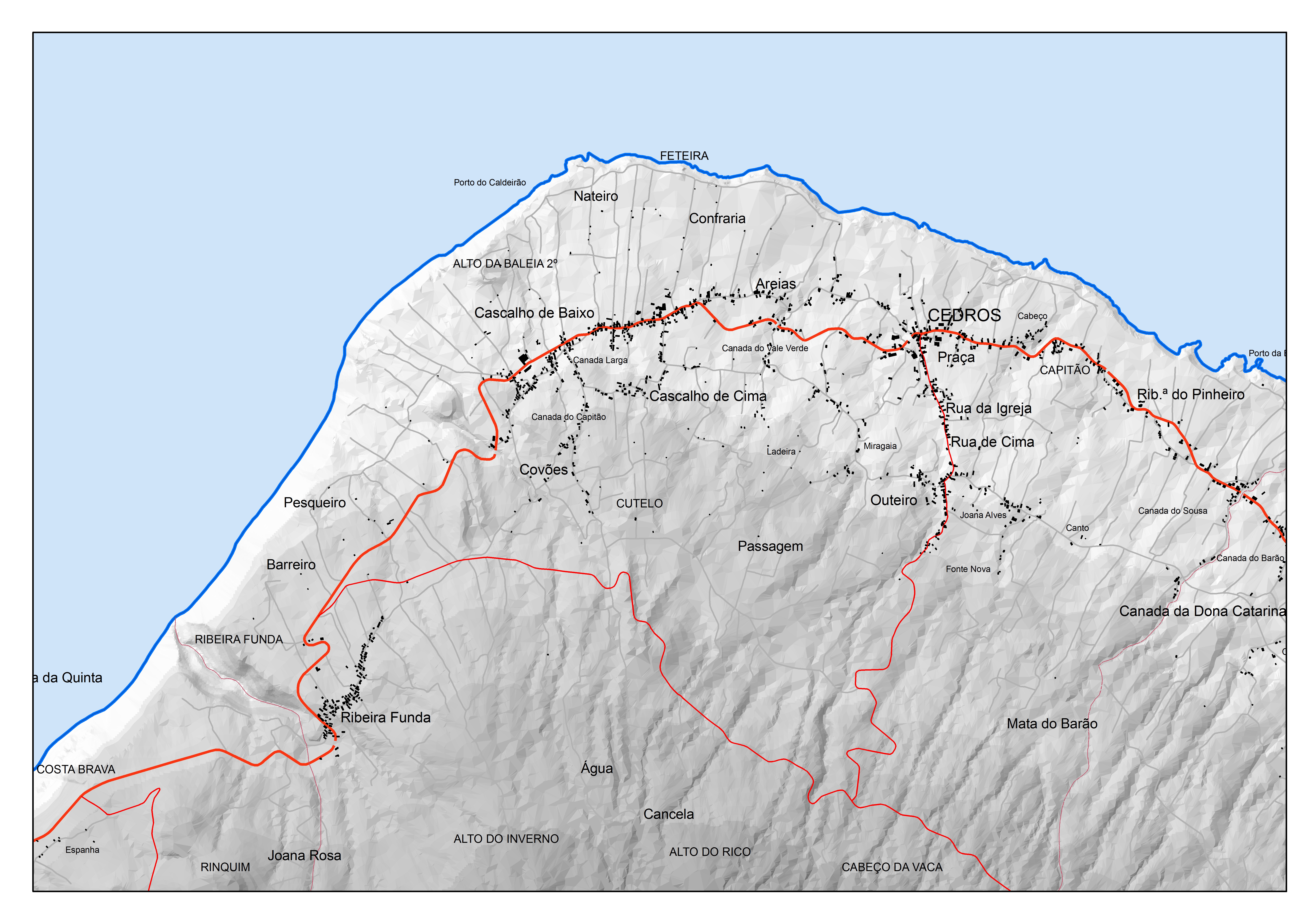 Parish of Cedros; North coast Faial Island, Azores